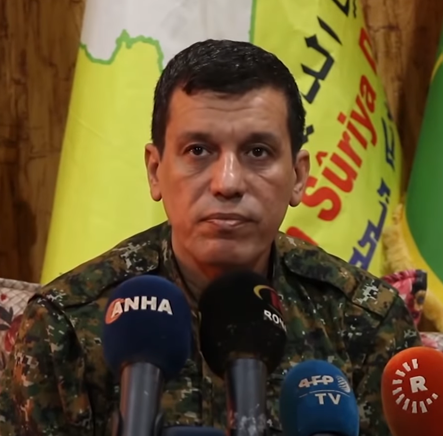 Mazlum Abdi (also known as Mazlum Kobanî), general commander of the Syrian Democratic Forces, speaks at a press conference on 24 October 2019.